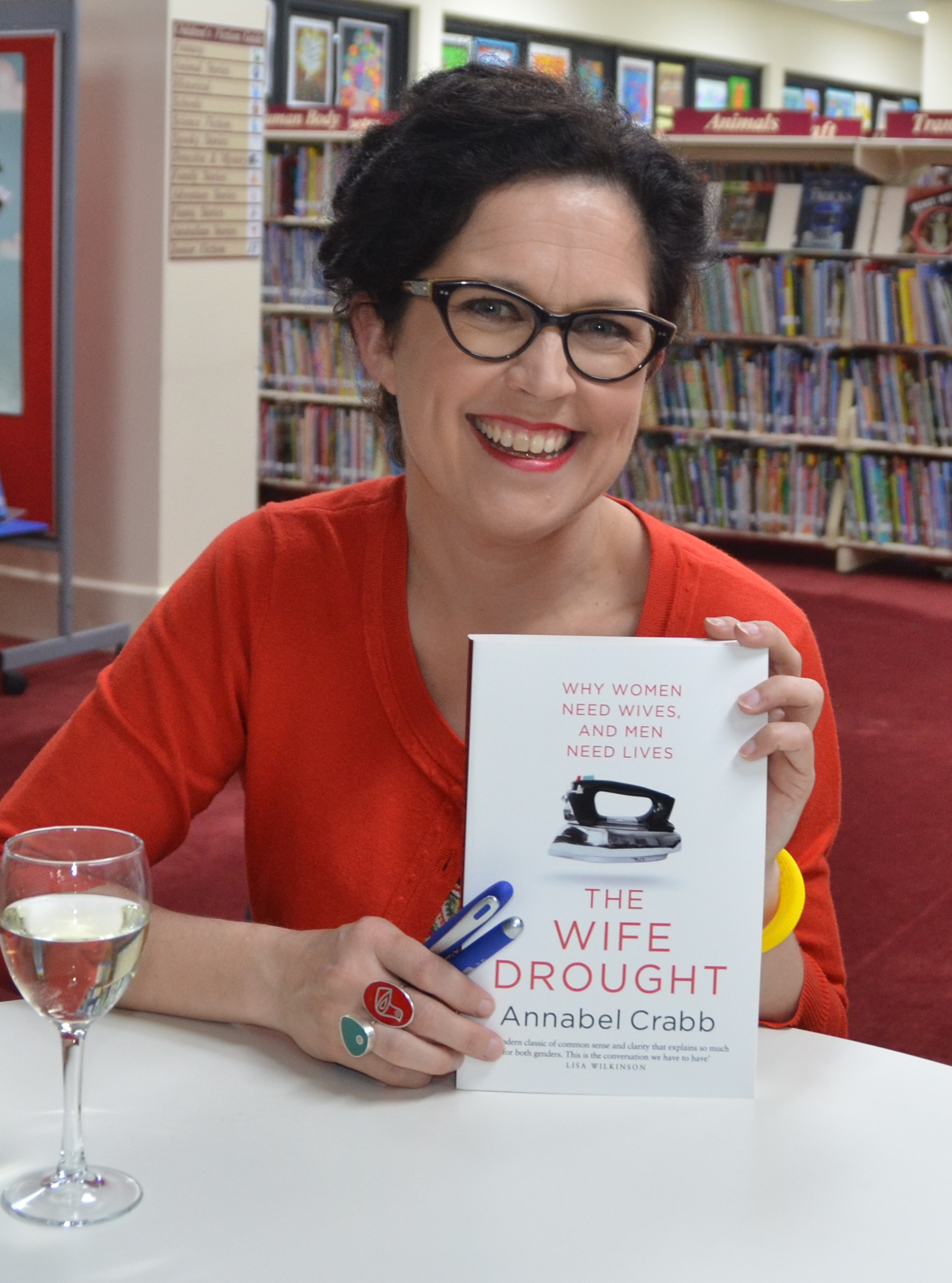 Author Event October 2014